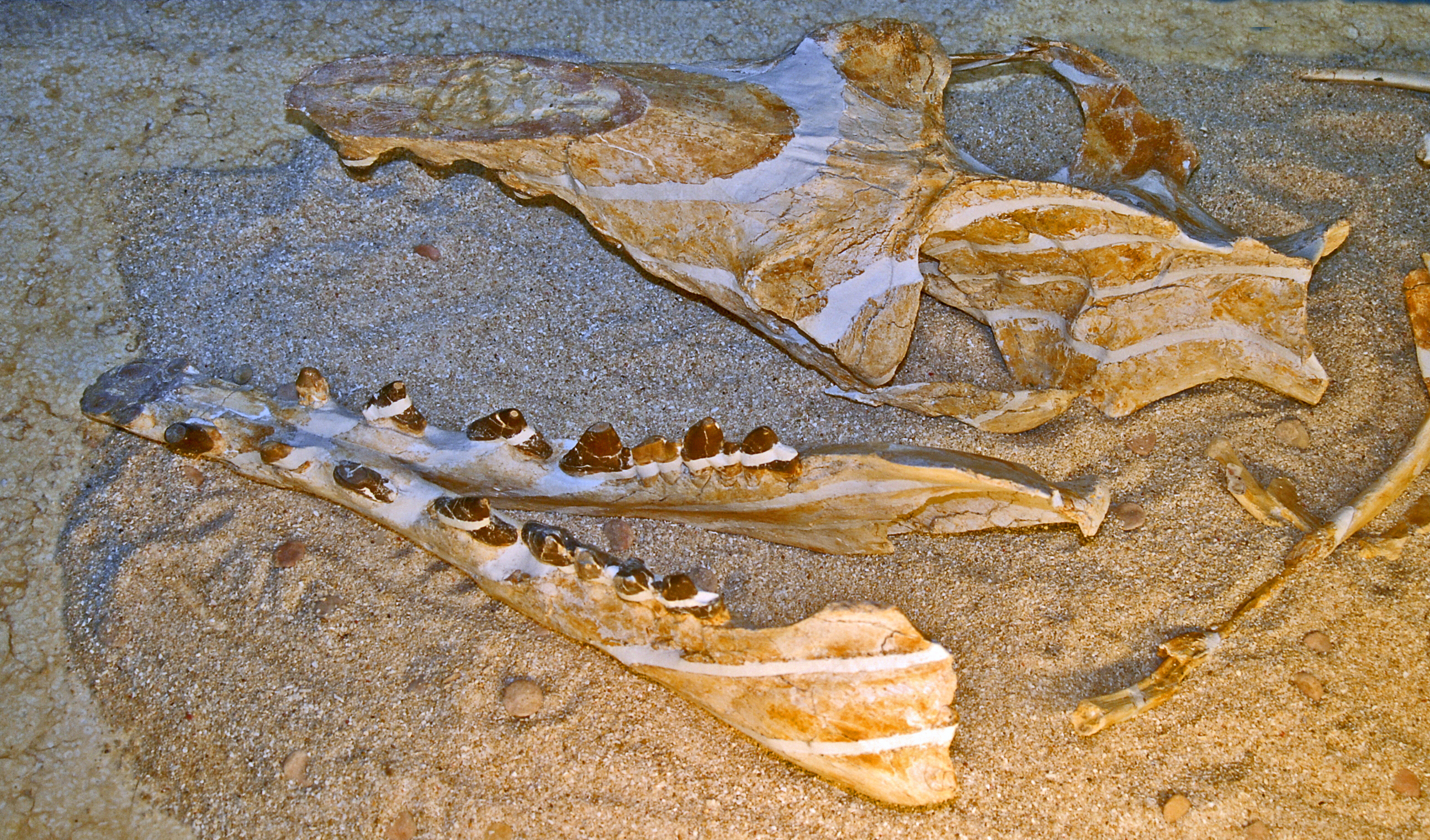 The holotype MSNTUP I-15459 of Aegyptocetus tarfa, on display at the Museo di Storia Naturale e del Territorio, Calci (Province Pisa), Italy